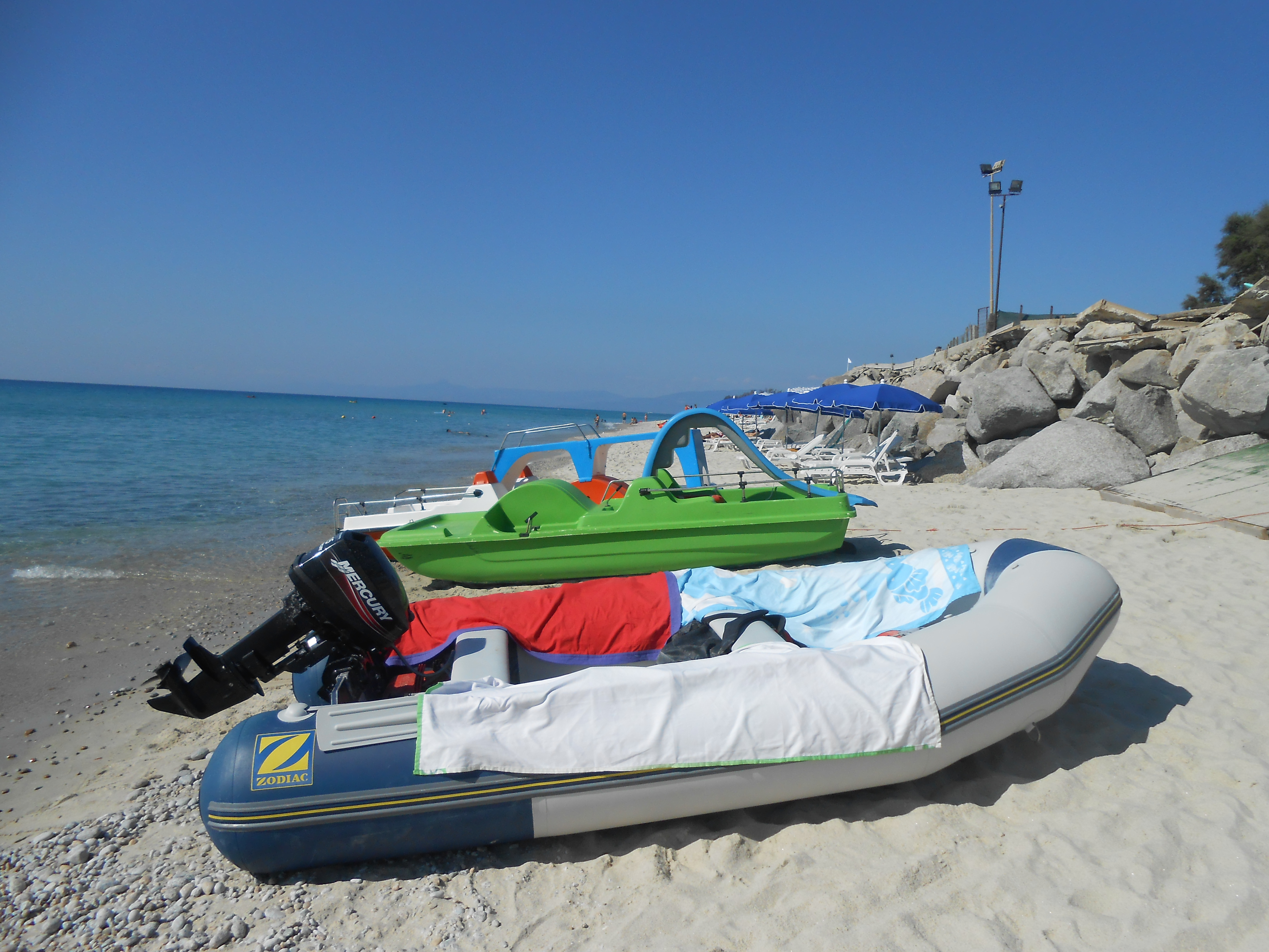 Inflatable boat in Parghelia ITALY